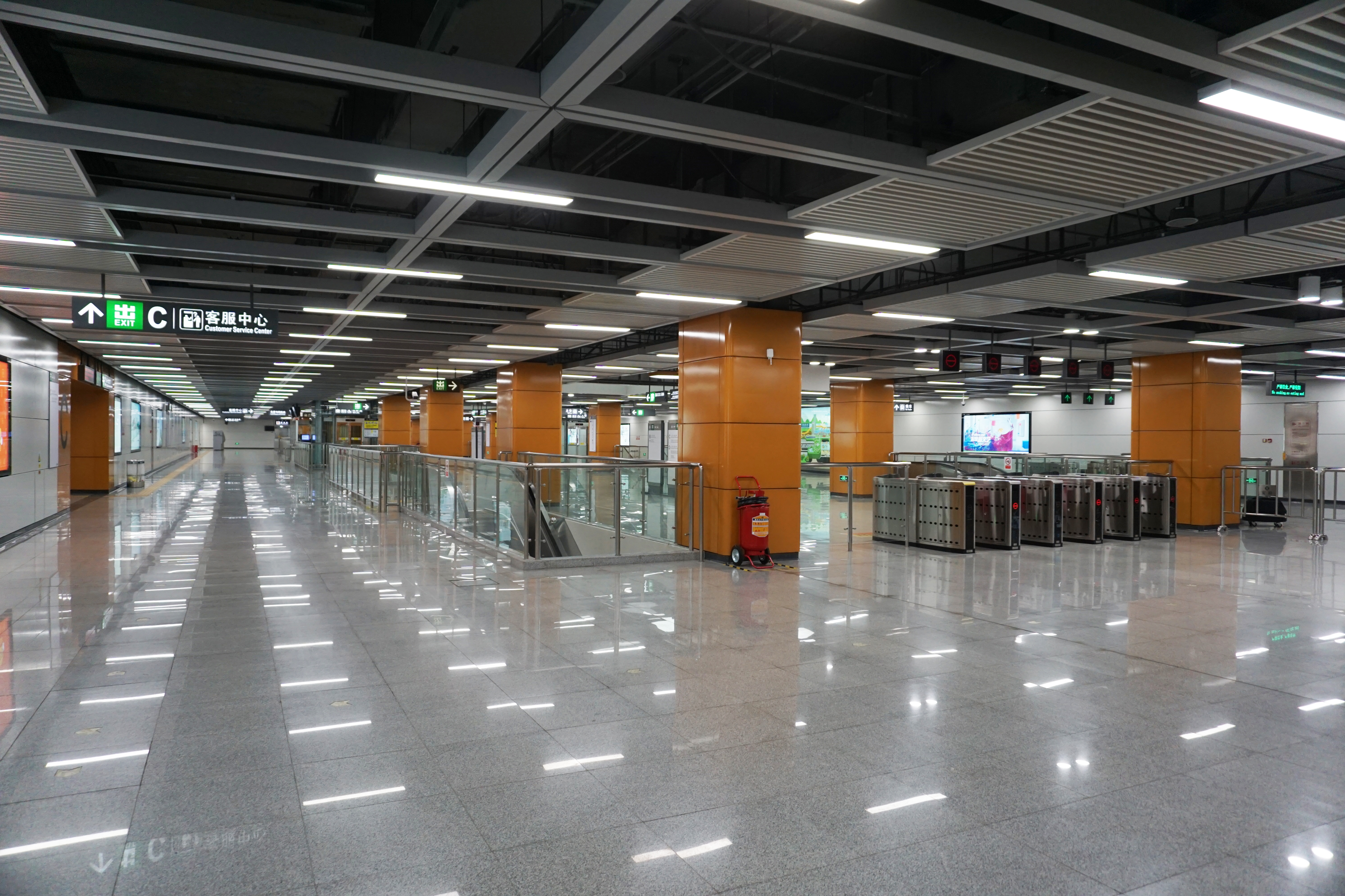 Shenyun Station in Nanshan District, Shenzhen.